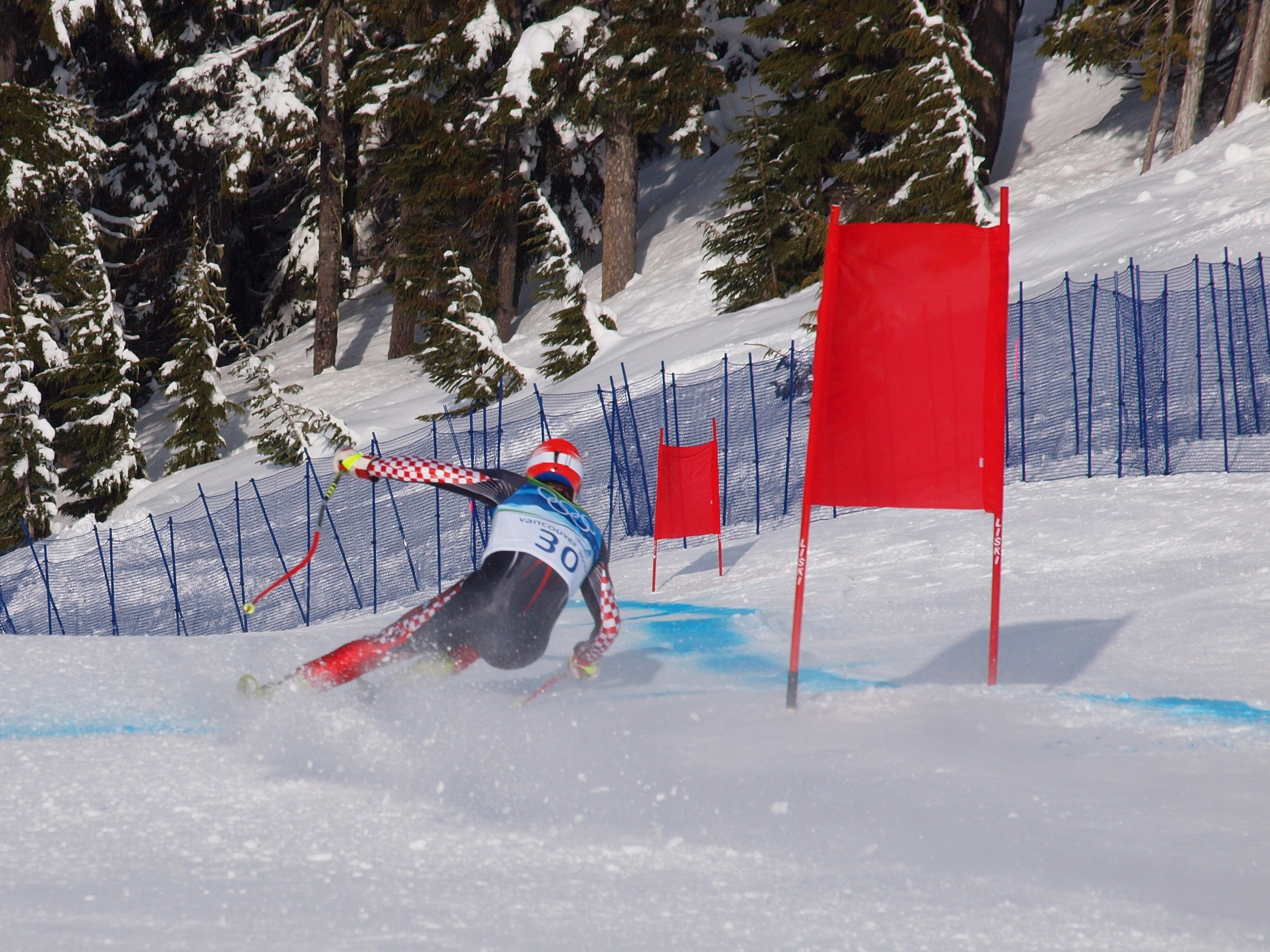 Ivica Kostelić at the 2010 Winter Olympic downhill.